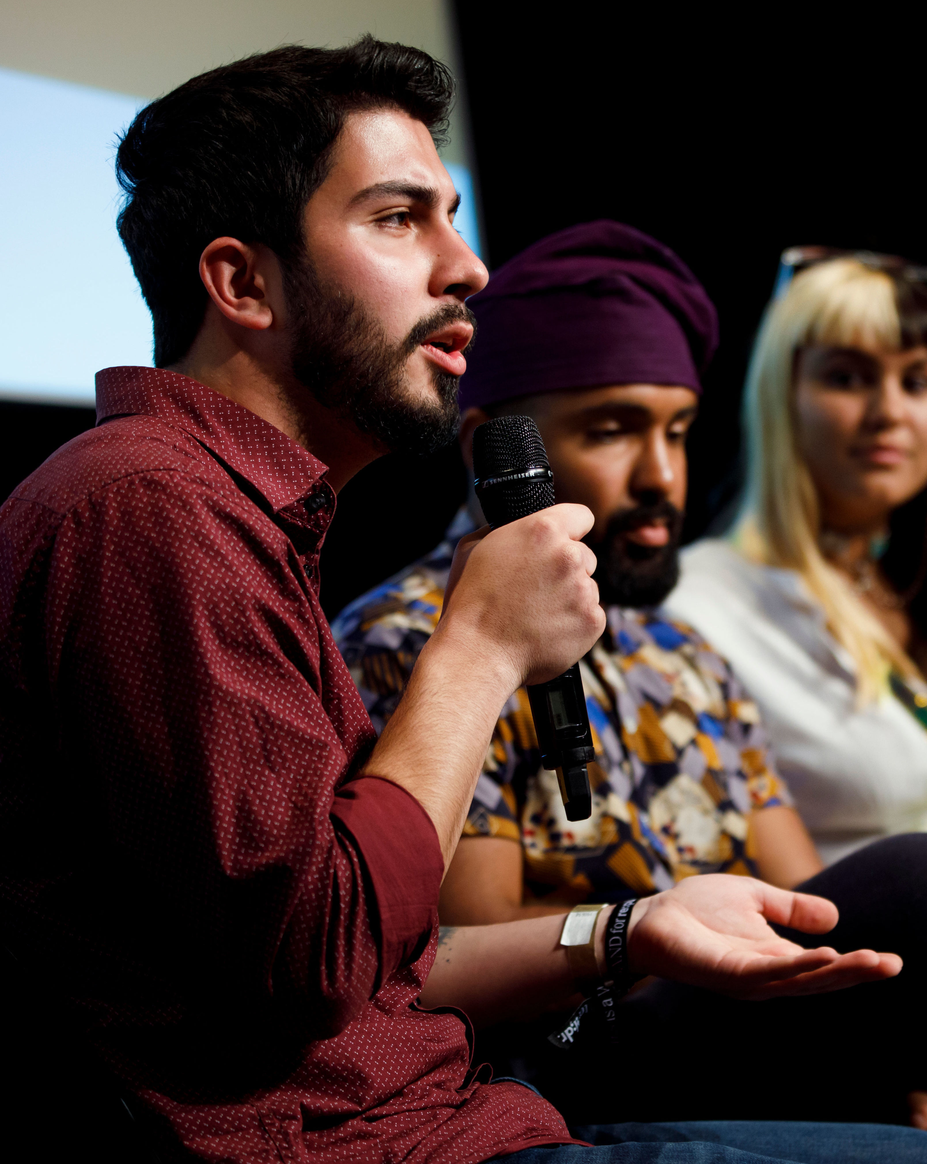 Session: Ein Jahr #MeTwo - Was los? Vorbote eines Civil Right Movements! Speaker: Farhad Dilmaghani, Marijana Bogojevic, Malcolm Ohanwe, Juliane Metzker, Ali Can